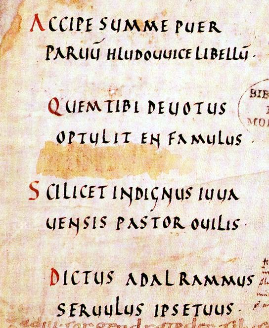 From a page of the Muspilli manuscript from the 9th century. Old bavarian poem added on the bottom about 870 to the latin text from about 830 above. Today stored in Munich, Bavarian State Library (Bayerische Staatsbibliothek) signiture Clm. 14098, f. 119v and 120r castellano: Una página del manuscrito Muspilli del siglo IX. Poema en bávaro antiguo, que fue agregado alrededor del año 870 al final de uno en latín del año 830. Archivado actualmente en la Bilbioteca del Estado Libre de Baviera (Bayerische Staatsbibliothek) en Munich, clave Clm. 14098, f. 119v y 120r bavarian: Saitn fum Muspilli Manuskript ausn 9tn Joahundat. Åid-Boarischs Gedicht wås ungefea um 870 auf da untan Saitn fu am latainischn Dext ausn Joa 830 dazua gschrim woan is. Ligt haid in da Boarischn Schdådsbibliodek (Bayerische Staatsbibliothek) in Minga unta da Signatua Clm. 14098, f. 119v und 120r